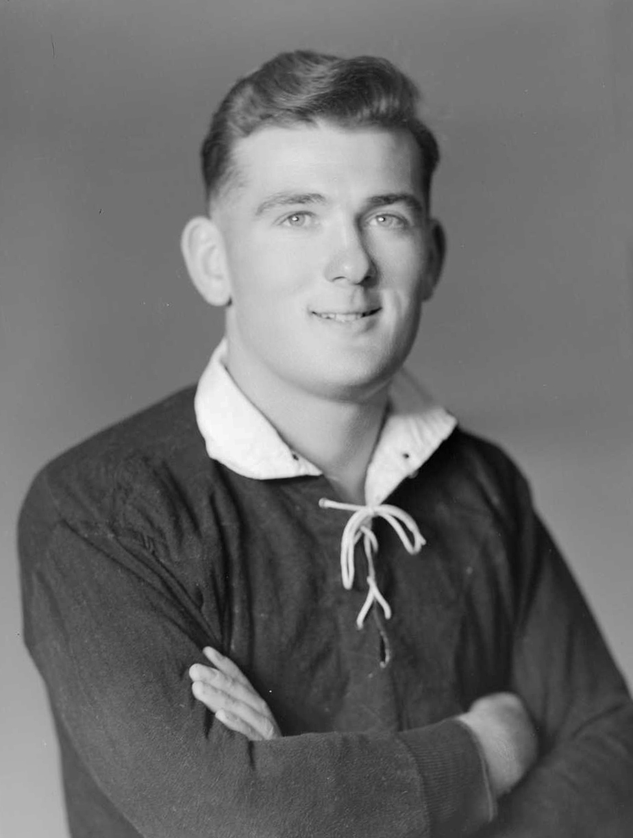 Photograph of James (Jim) McCormick in All Black Uniform, taken by Crown Studio Ltd of Wellington.